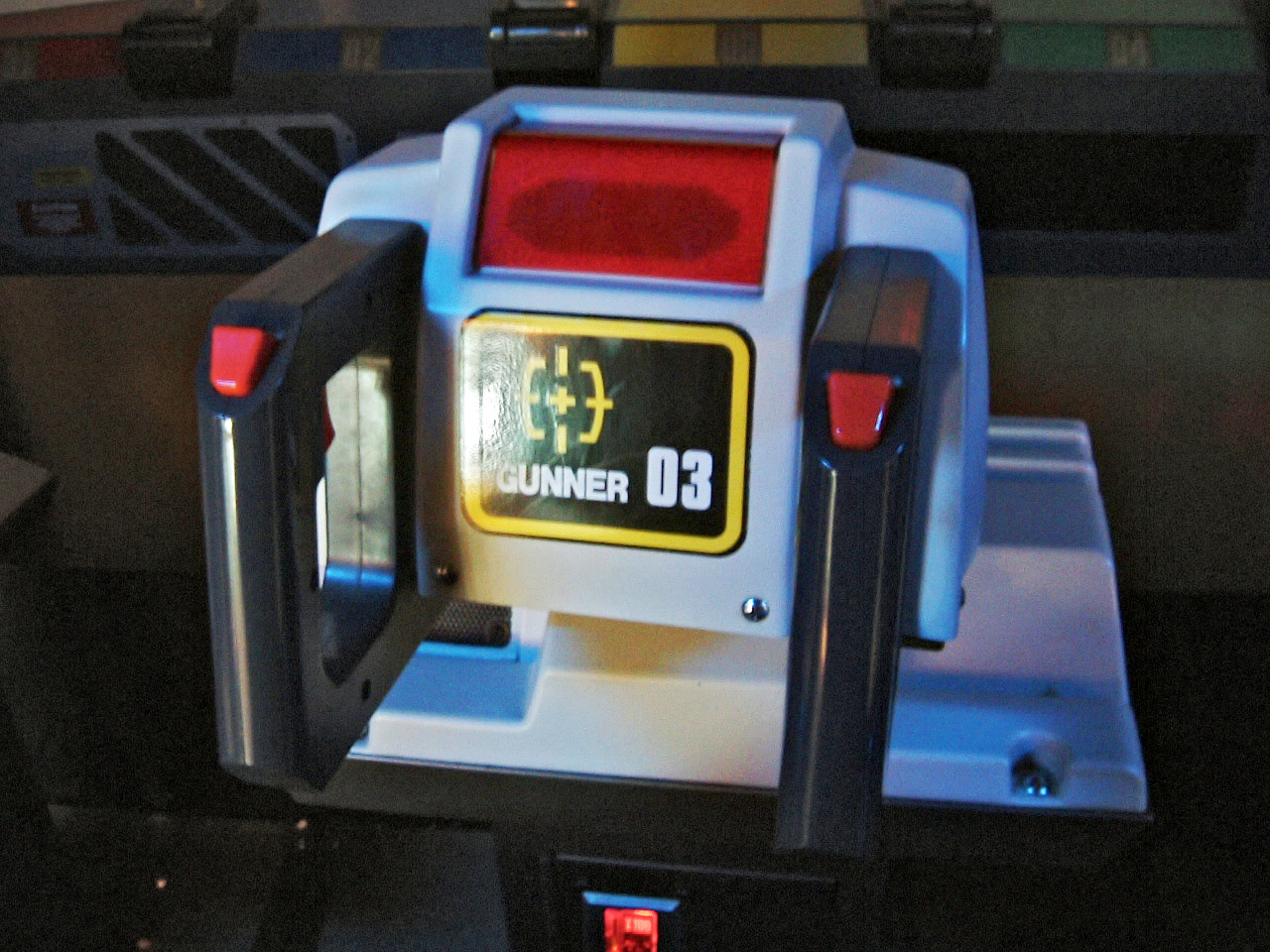 Galaxian3 Controller. taken by User:RadioActive.